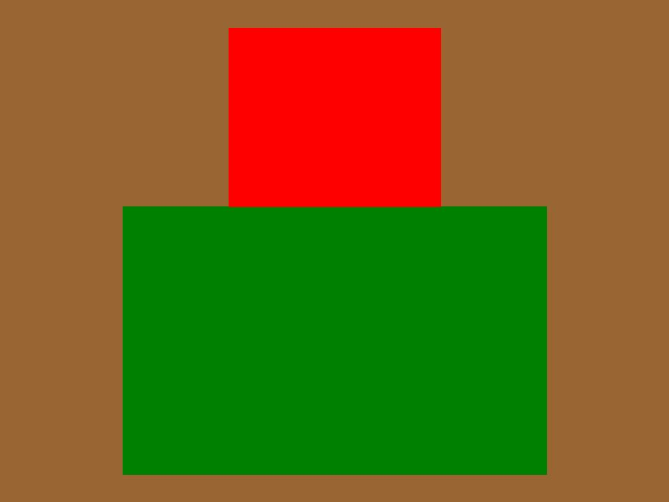 The distinguishing patch of the 102nd Battalion, CEF.